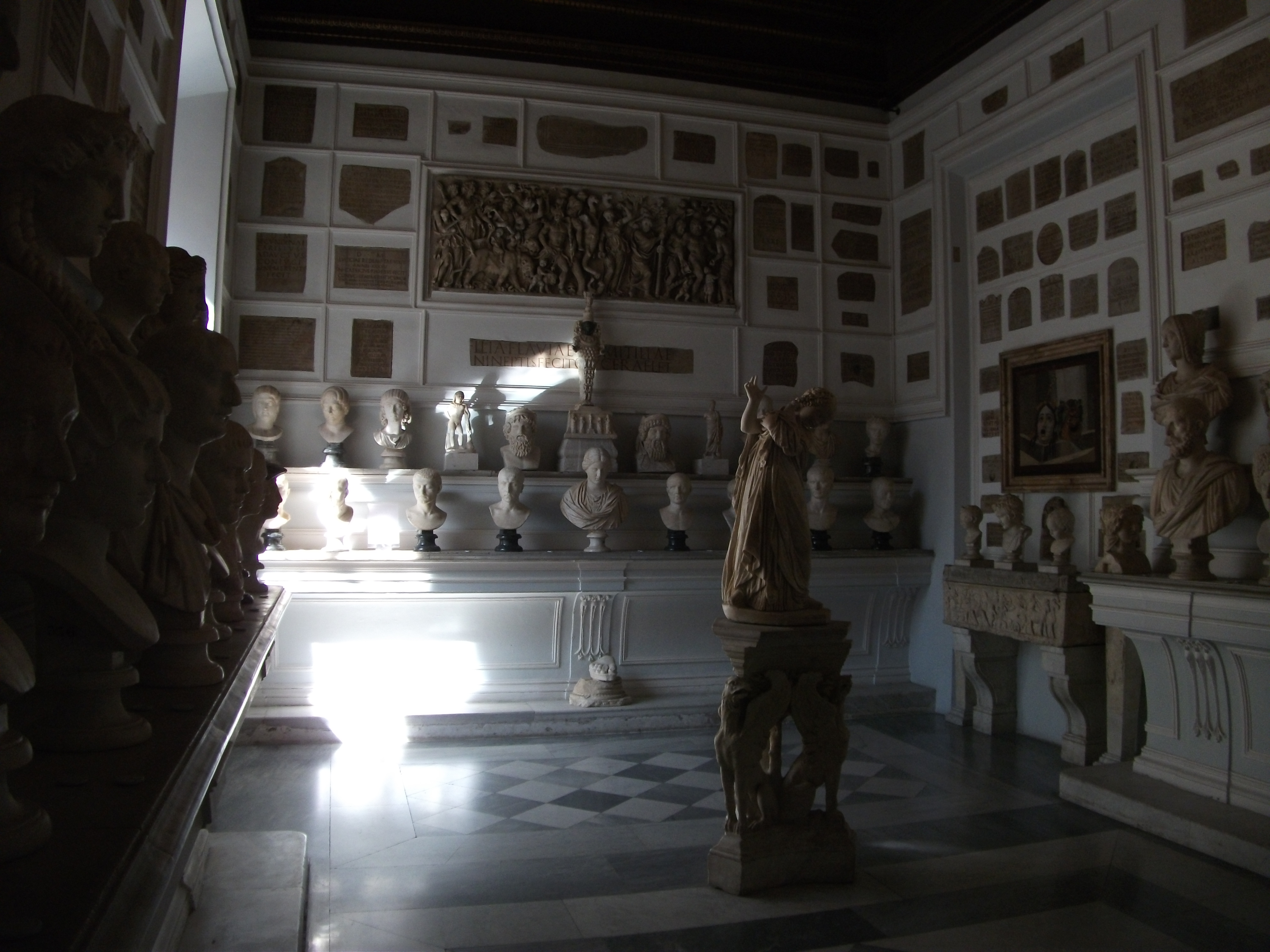 Palazzo dei Conservatori (Rome)